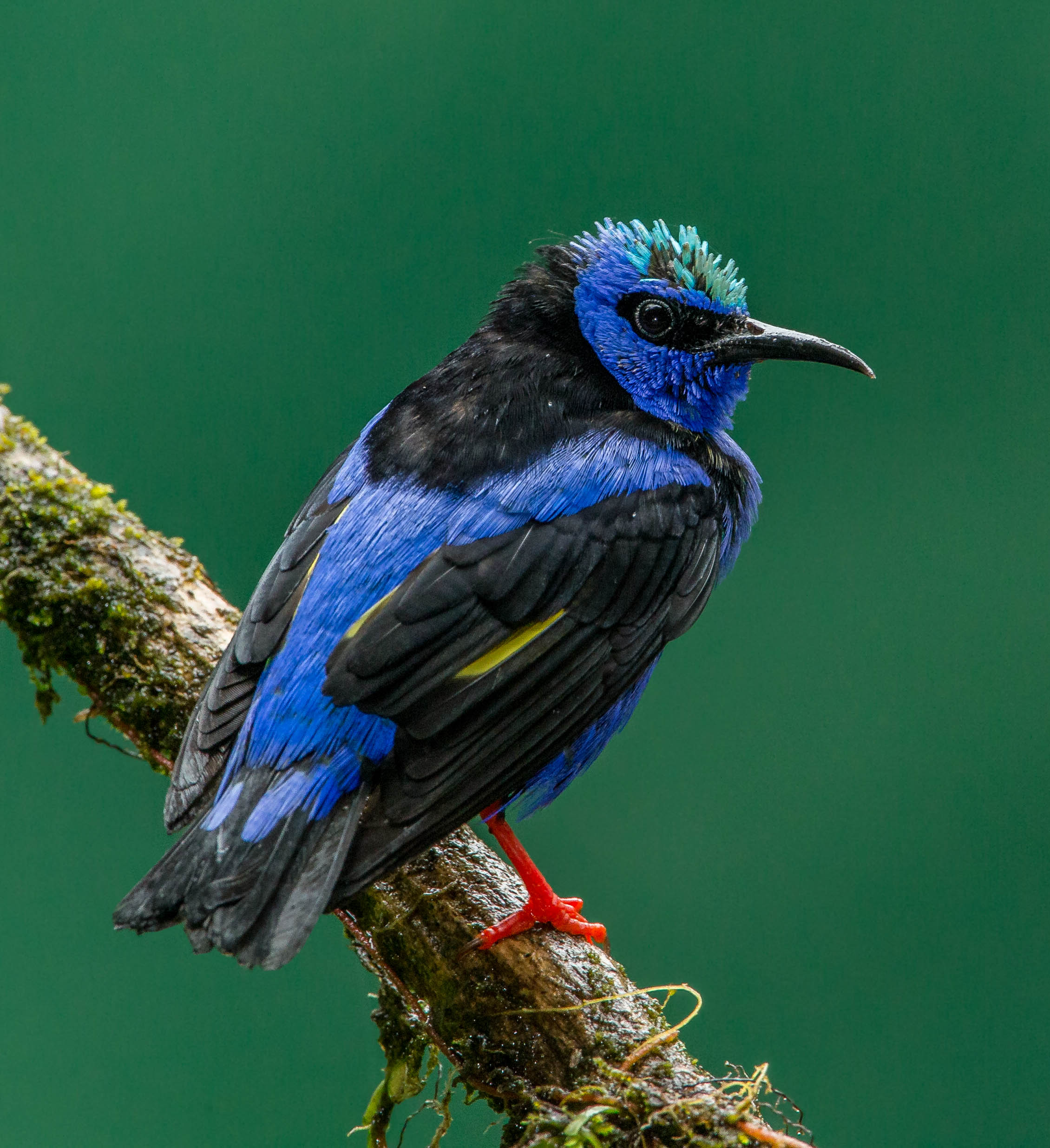 Nigel mentioned this was his favorite bird once or twice - an hour!!!! Taken in Costa Rica.